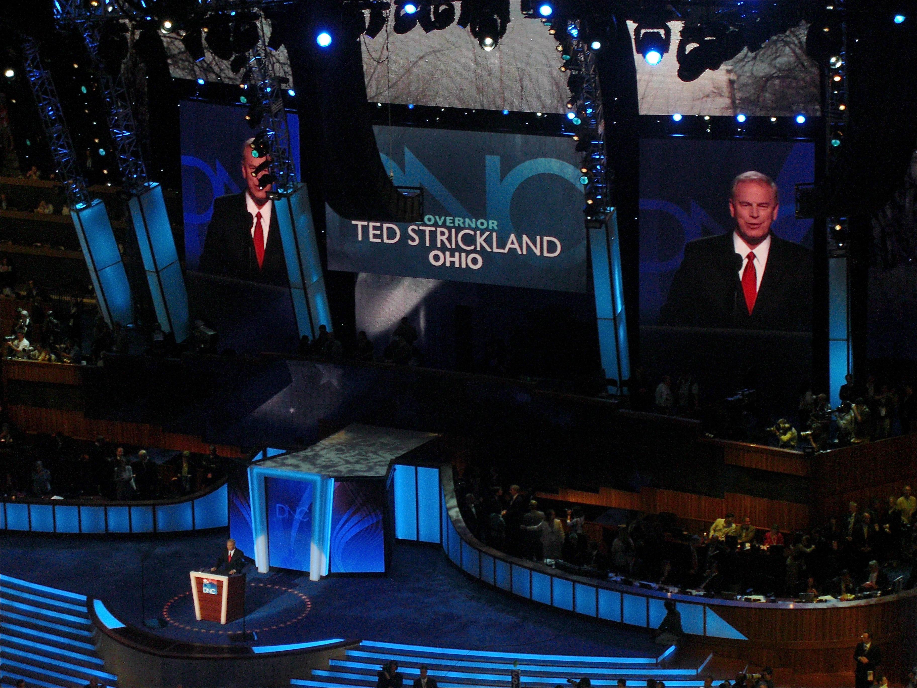 Ted Strickland speaks during the second day of the 2008 Democratic National Convention in Denver, Colorado.